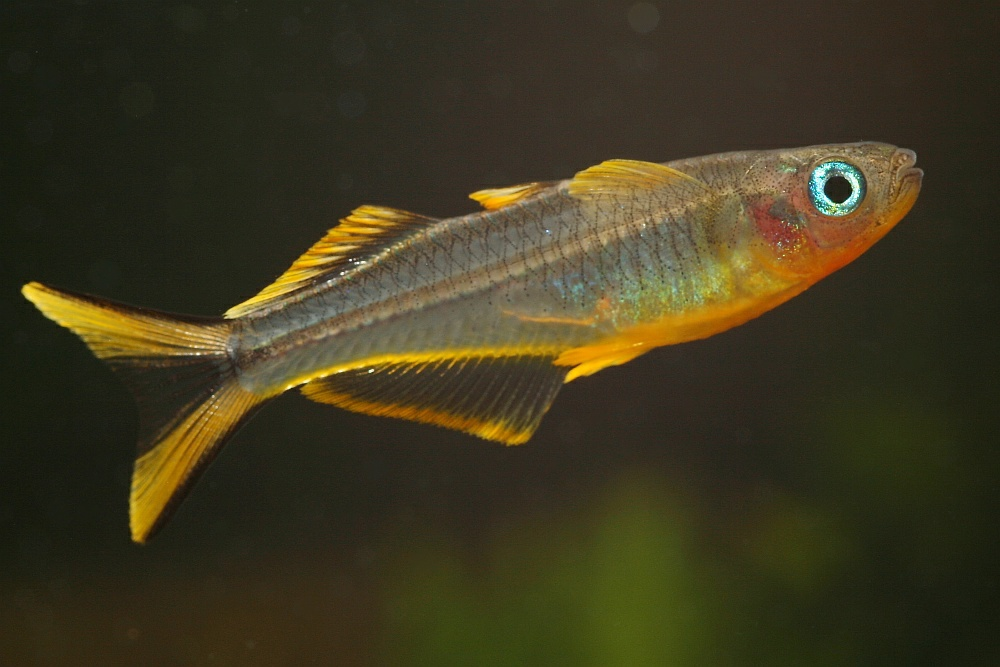 Forktail Blue-eye (Pseudomugil furcatus) - male - in aquarium.